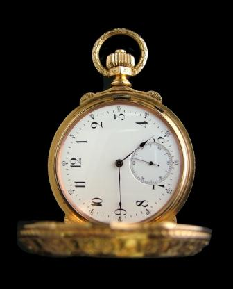 La esmeralda, Tourbillon with 3 gold bridges, gold medal at the 1889 paris universal exhibition